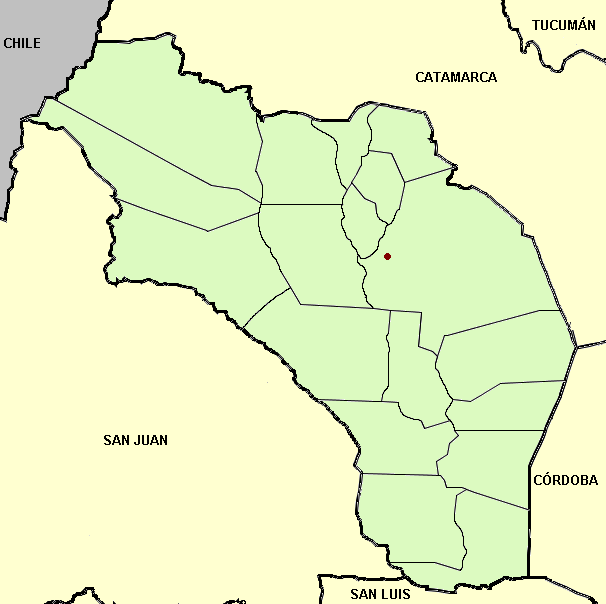 It shows administrative boundaries of La Rioja province in Argentina, its departments and its capital (La Rioja city).